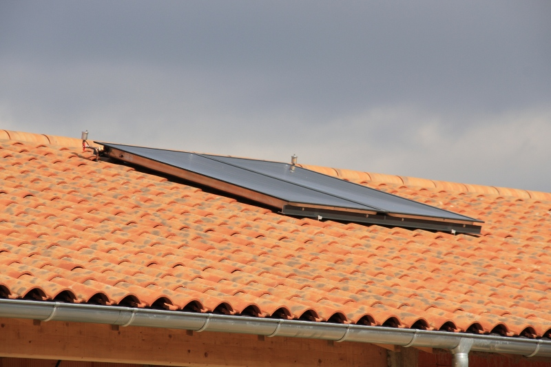 solar power unit on the roof of the school